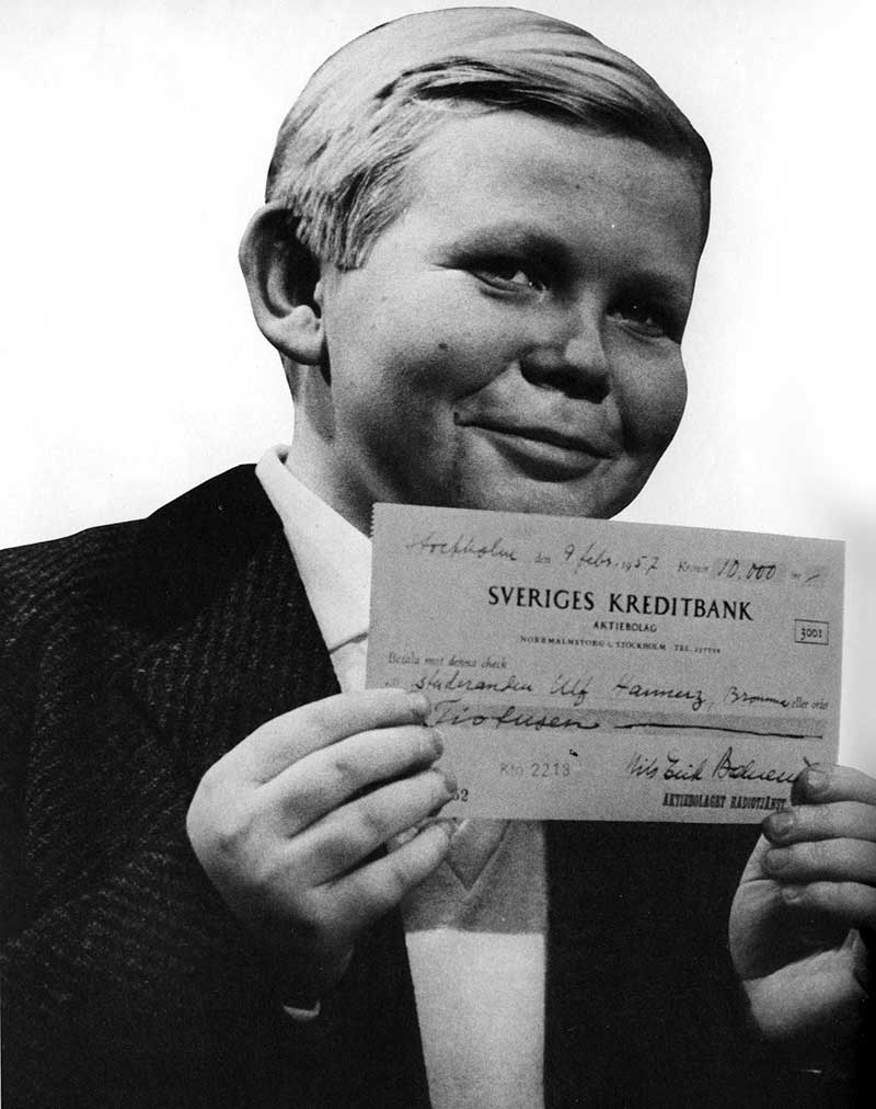 Ulf "Hajen" Hannerz holding a bank cheque issued by the